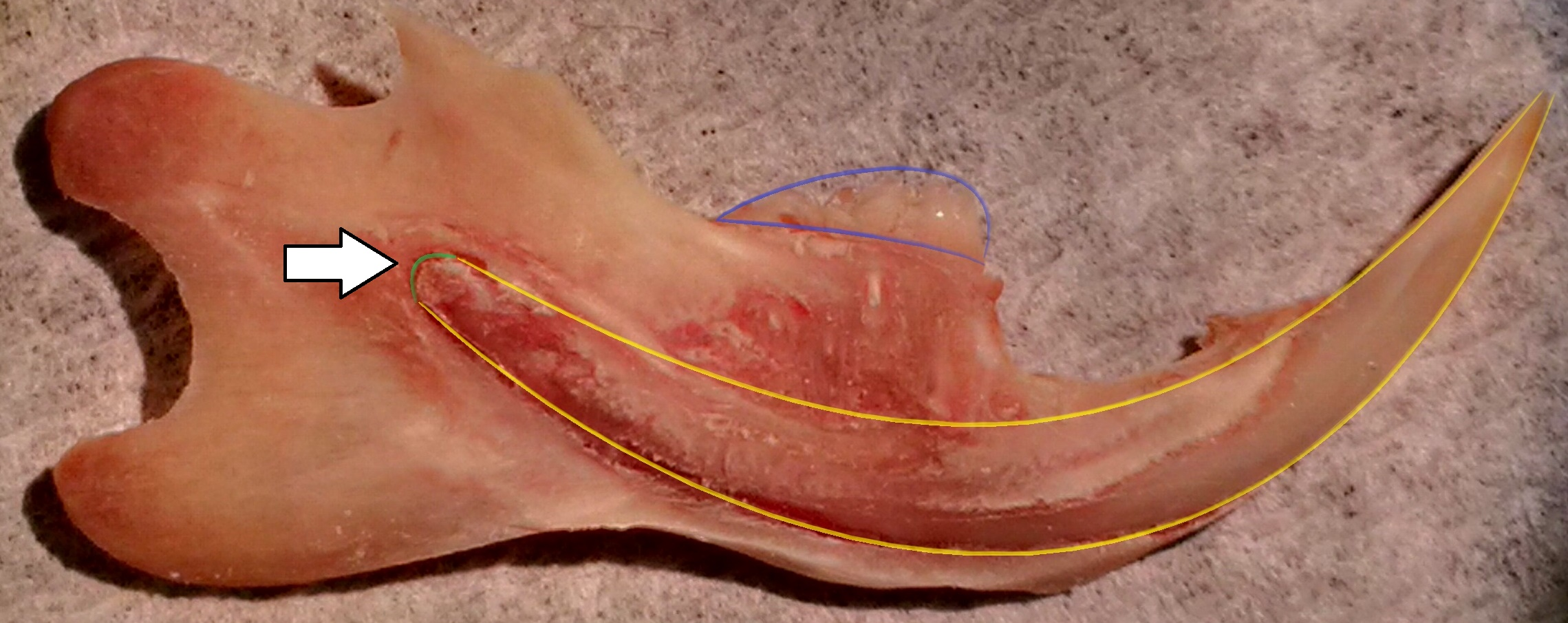 A buccal view of the lower incisor from the right dentary of a Rattus rattus. This image shows the full length of the incisor that is within the dentary. The arrow indicates the origin of the incisor. The molars are also circled to show relative distance from incisors.